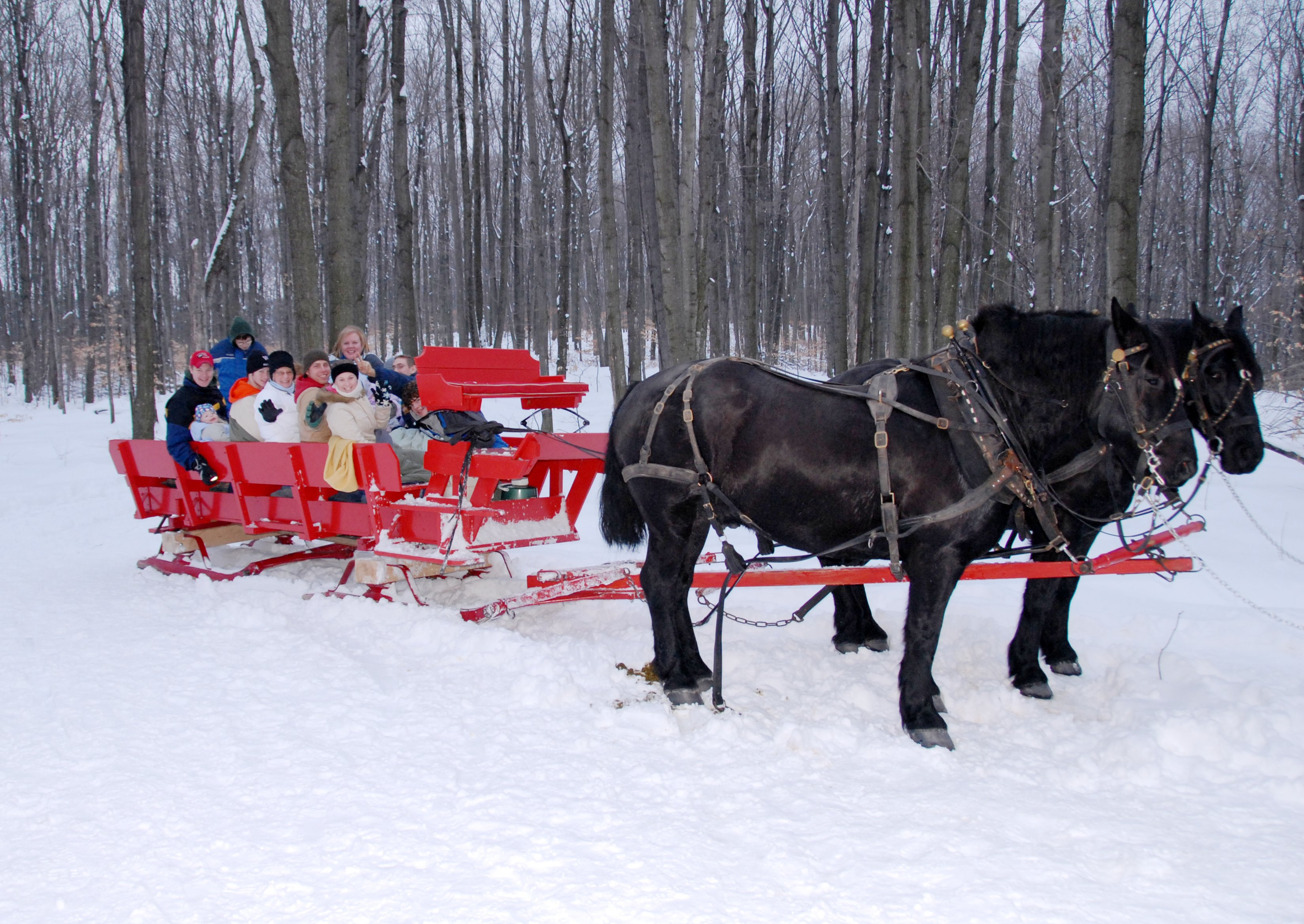 Percherons. New family tradition - taking a sleigh ride in the woods on New Years Eve at the Black Horse Farms